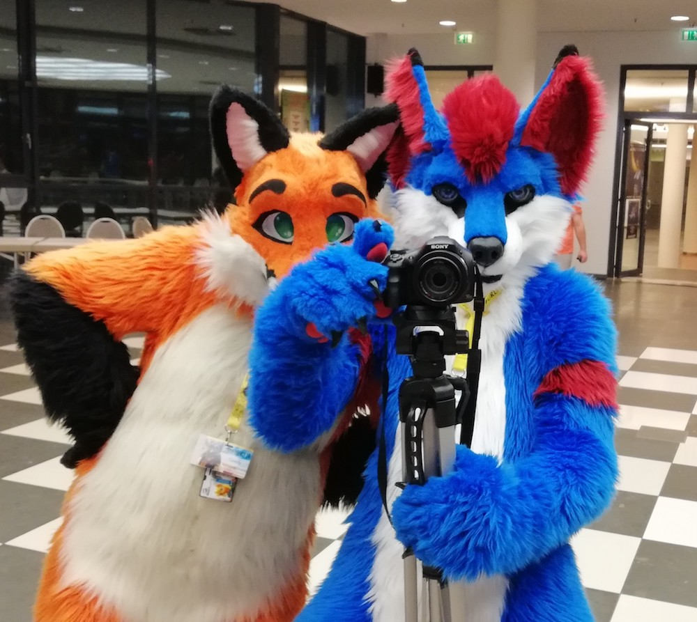 Two suiter : Reedy Creek (orange) and Filixx Fox (bleu), Taken at the Eurofurence convention, Berlin, 2018